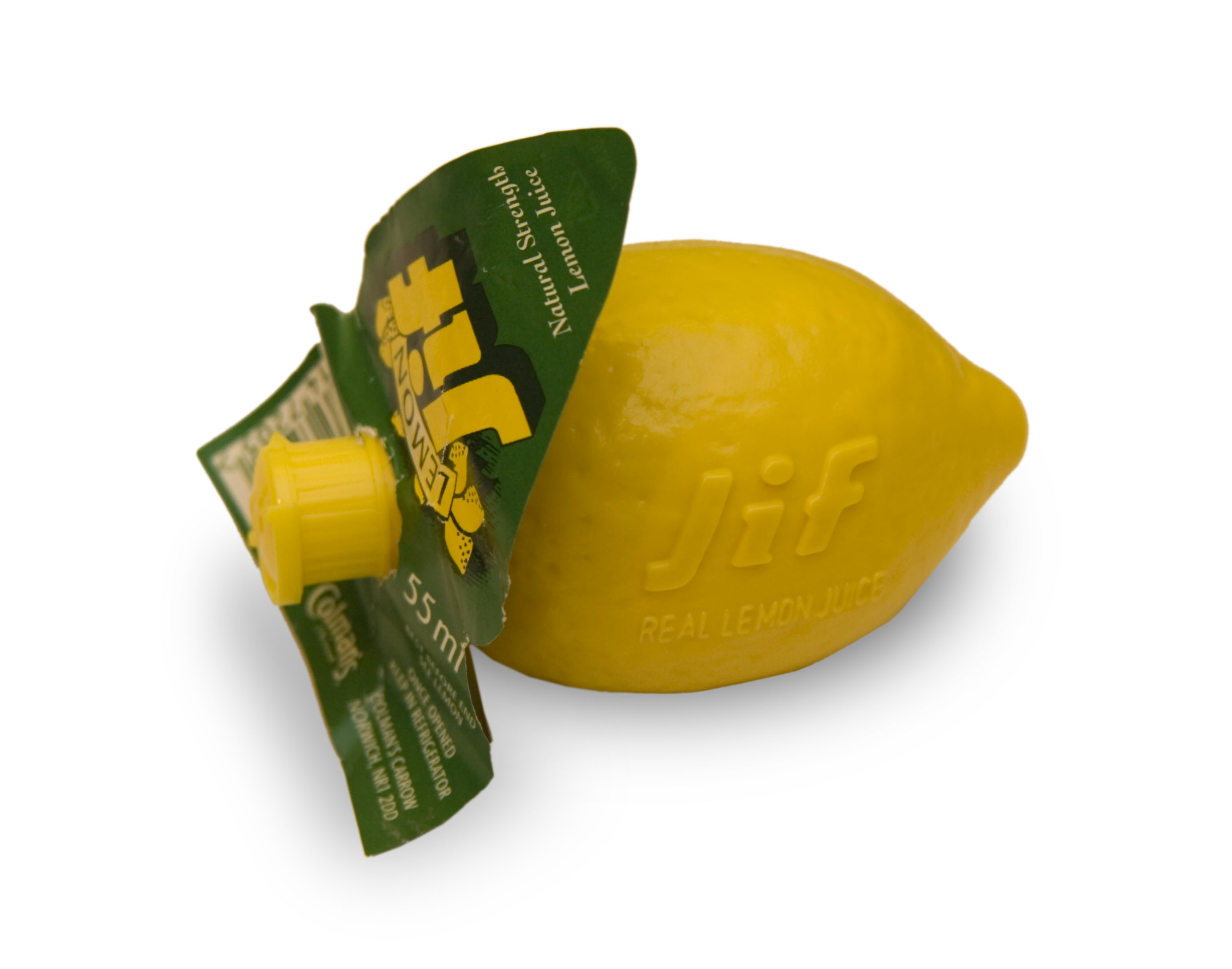 A Jif Lemon